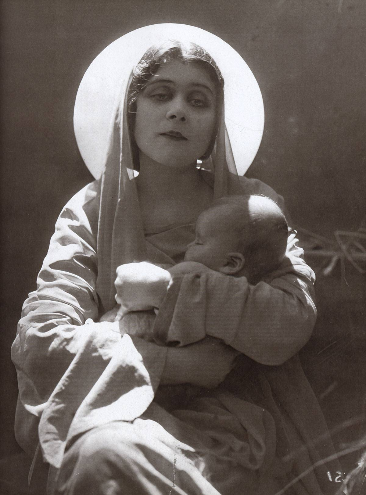 Theda Bara with a child